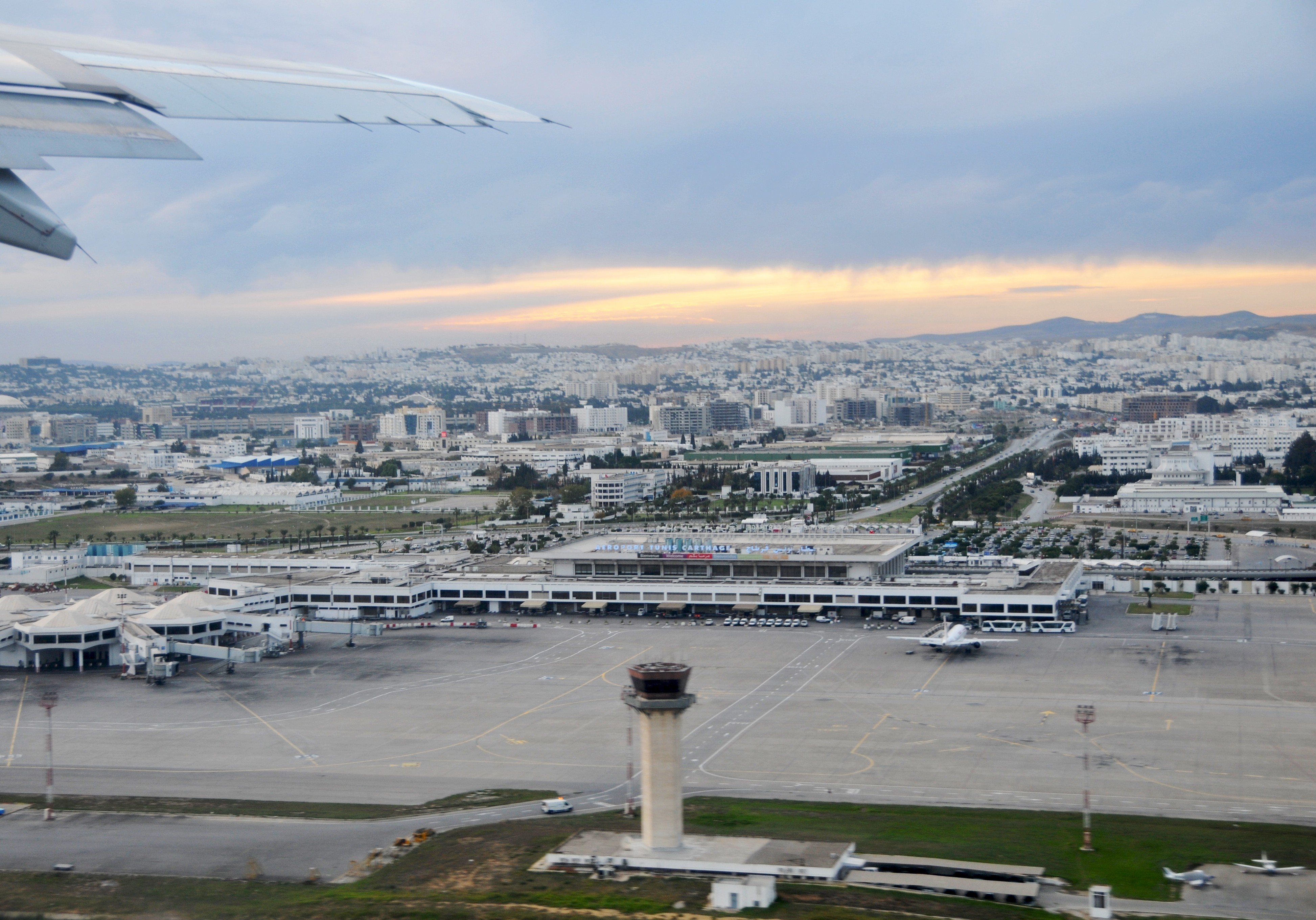 Tunis-Carthage Airport